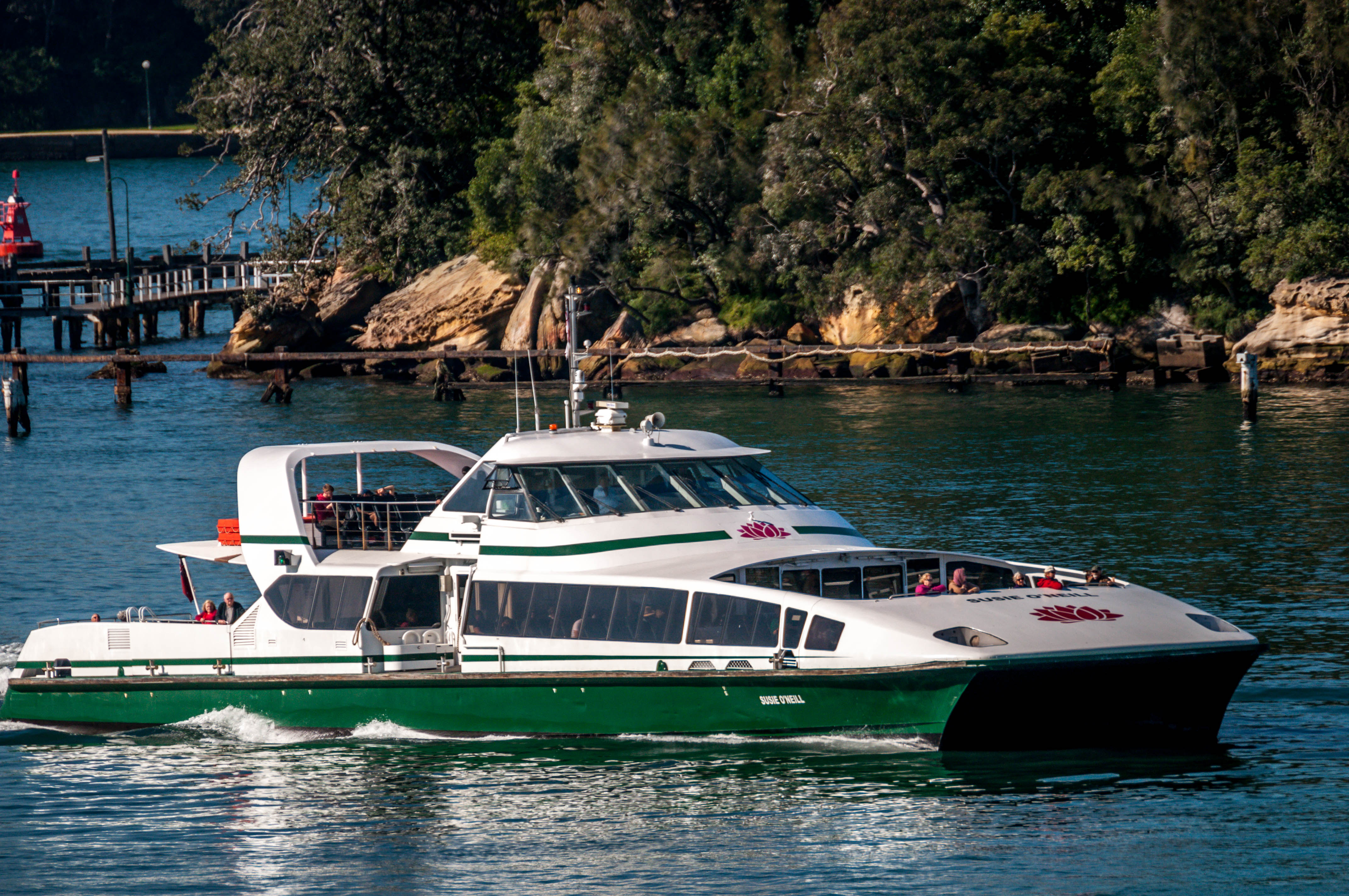 SuperCat Susie O’Neill passing Goat Island